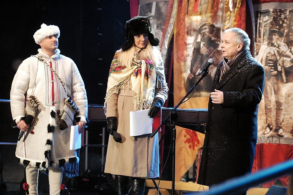 President Lech Kaczyński during opening ceremony of 8th World Winter Polish Games in Zakopane